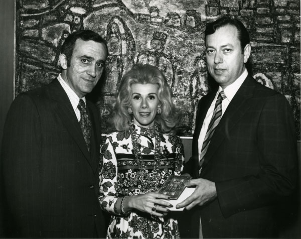 Joan Rivers at Larchmont Temple in Larchmont, New York. Photographer: Herbert Studios Date: June 15, 1971 Medium: Black and white photographic print Repository: American Jewish Historical Society Parent Collection: United Jewish Appeal-Federation of New York Collection, 1915-2004 Call number: I-433 The original photograph was found in Subgroup II: United Jewish Appeal of Greater New York, Series 3 Public Relations, Subseries I. Photographs, Box 13 in a folder titled “Communities - Westchester – Larchmont, 1971.” See more information about this image and the collection by viewing the finding aid: Guide to the United Jewish Appeal-Federation of New York collection. Rights Information: No known copyright restrictions; may be subject to third party rights. For more copyright information, click here. To inquire about rights and permissions, or if you have a question regarding the collection to which the image belongs, please contact the Reference Department of the American Jewish Historical Society by email. Digital image created by the American Jewish Historical Society for display on Flickr.